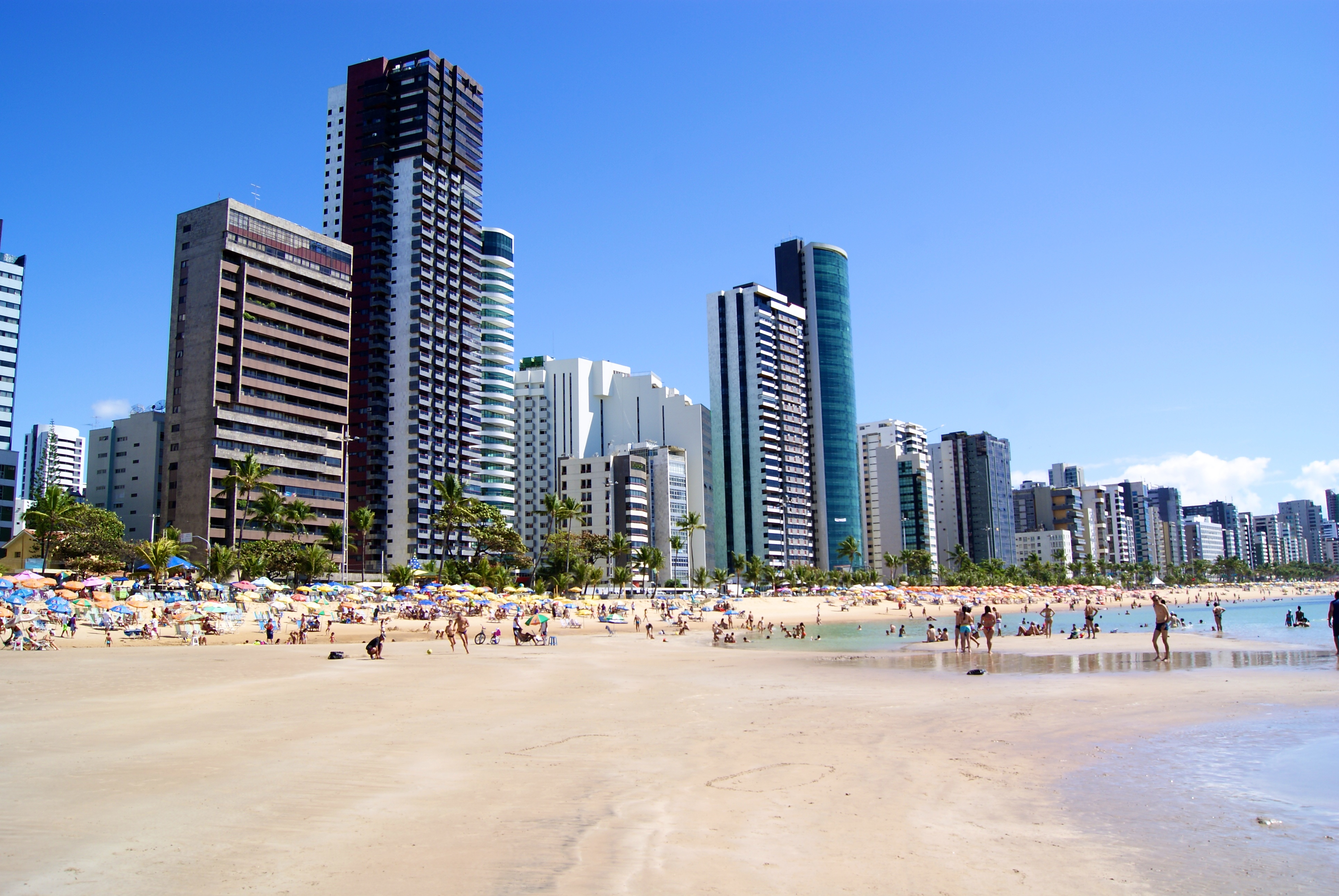 Boa Viagem Beach - Recife - Pernambuco - Brazil